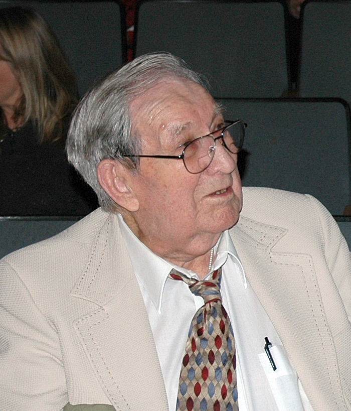 Ed Walker, the last surviving member of Castner's Cutthroats, at an exhibition opening at the Anchorage Museum of Natural History in 2008.